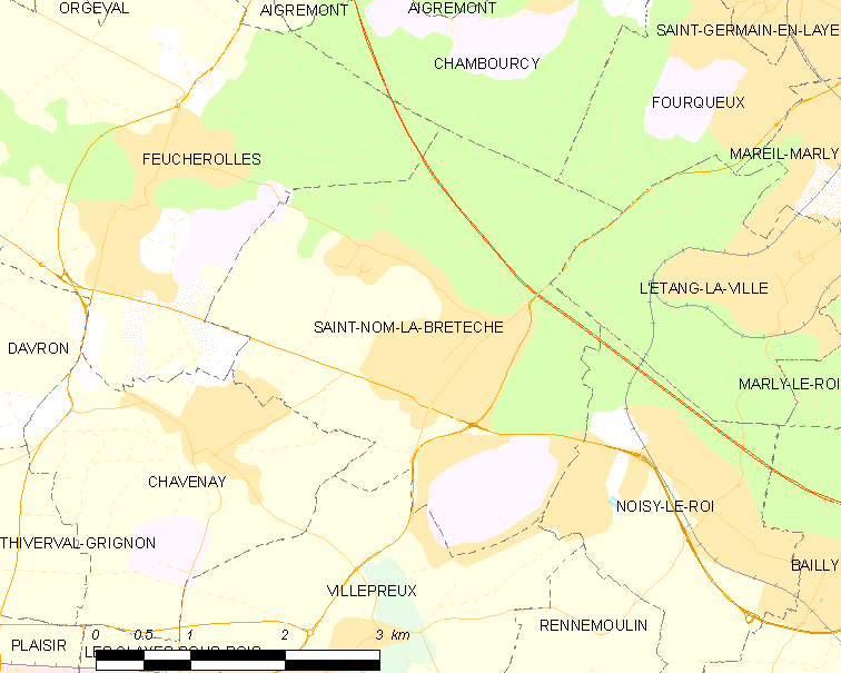 Map of French municipality Saint-Nom-la-Bretèche